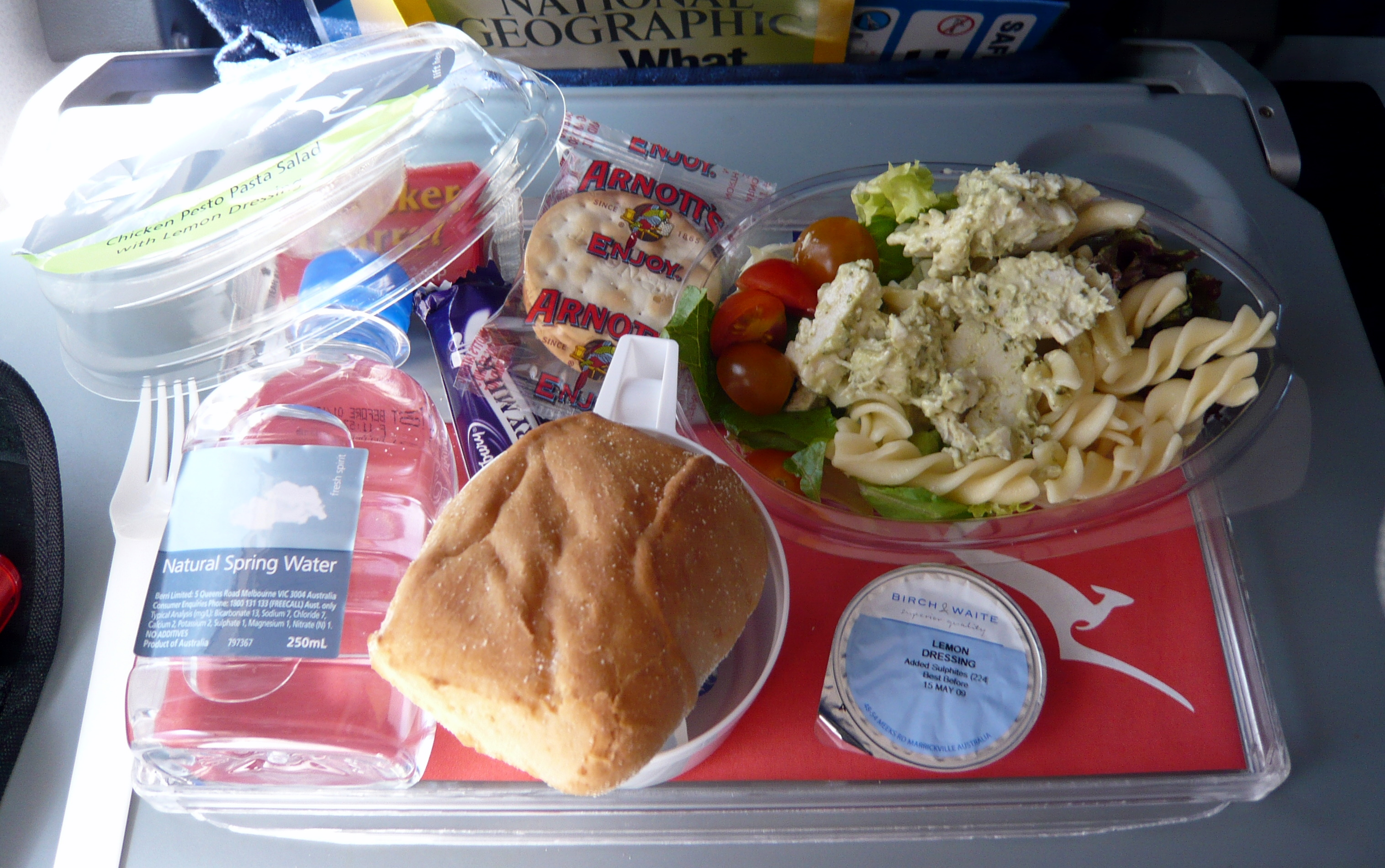 A lunch onboard Qantas flight QF1938.